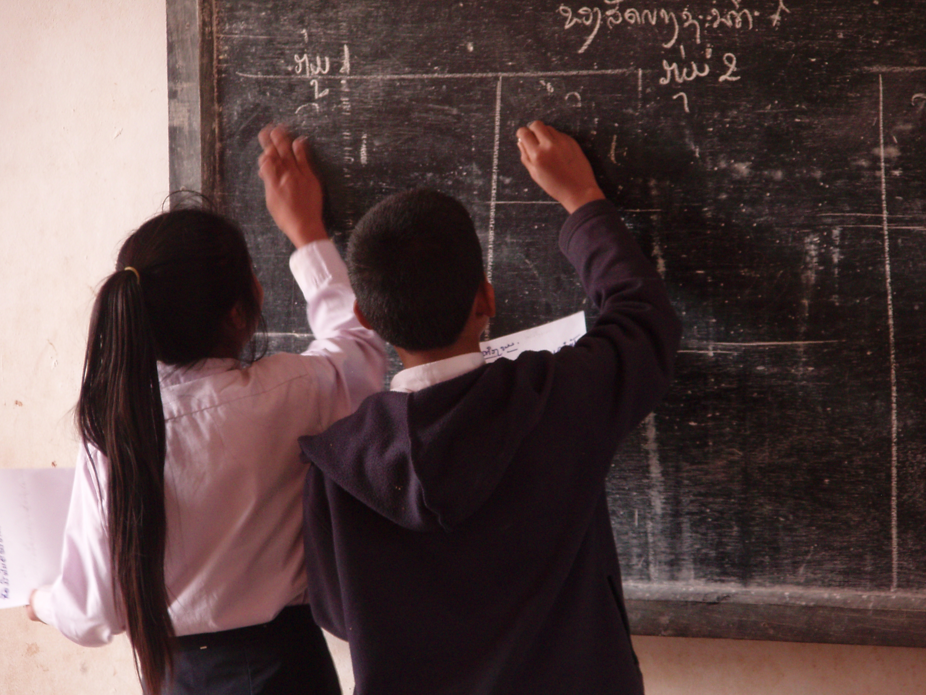 Pupils writing on the blackboard in a village school in Laos